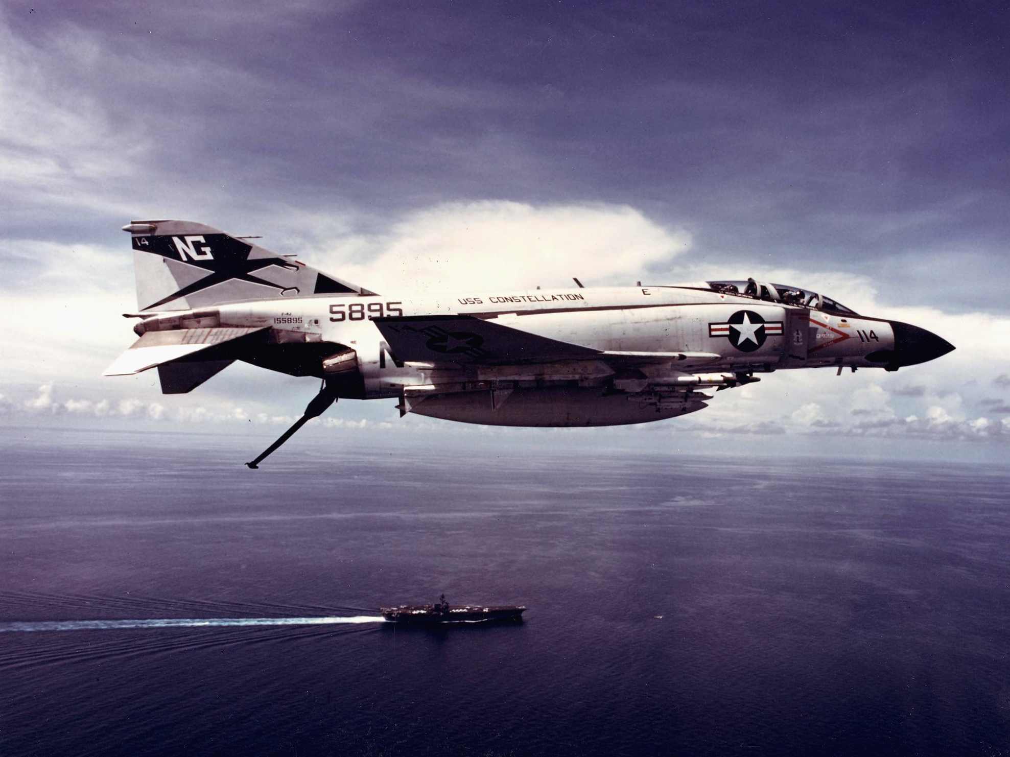 A U.S. Navy McDonnell Douglas F-4J Phantom II (BuNo 155895) of Fighter Squadron 96 (VF-96) "Fighting Falcons" in flight over the aircraft carrier USS Constellation (CVA-64). VF-96 was assigned to Attack Carrier Air Wing 9 (CVW-9) aboard the Constellation between 1971 and 1974. The aircraft is fully armed with AIM-7 Sparrow and AIM-9D Sidewinder missiles, indicating that this photo was probably taken during a deployment to Vietnam.